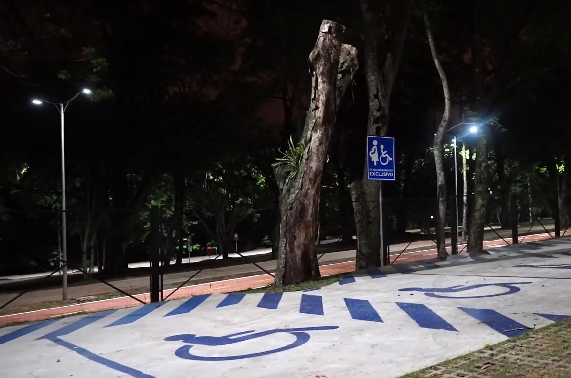 Itaipú Park in Ciudad del Este